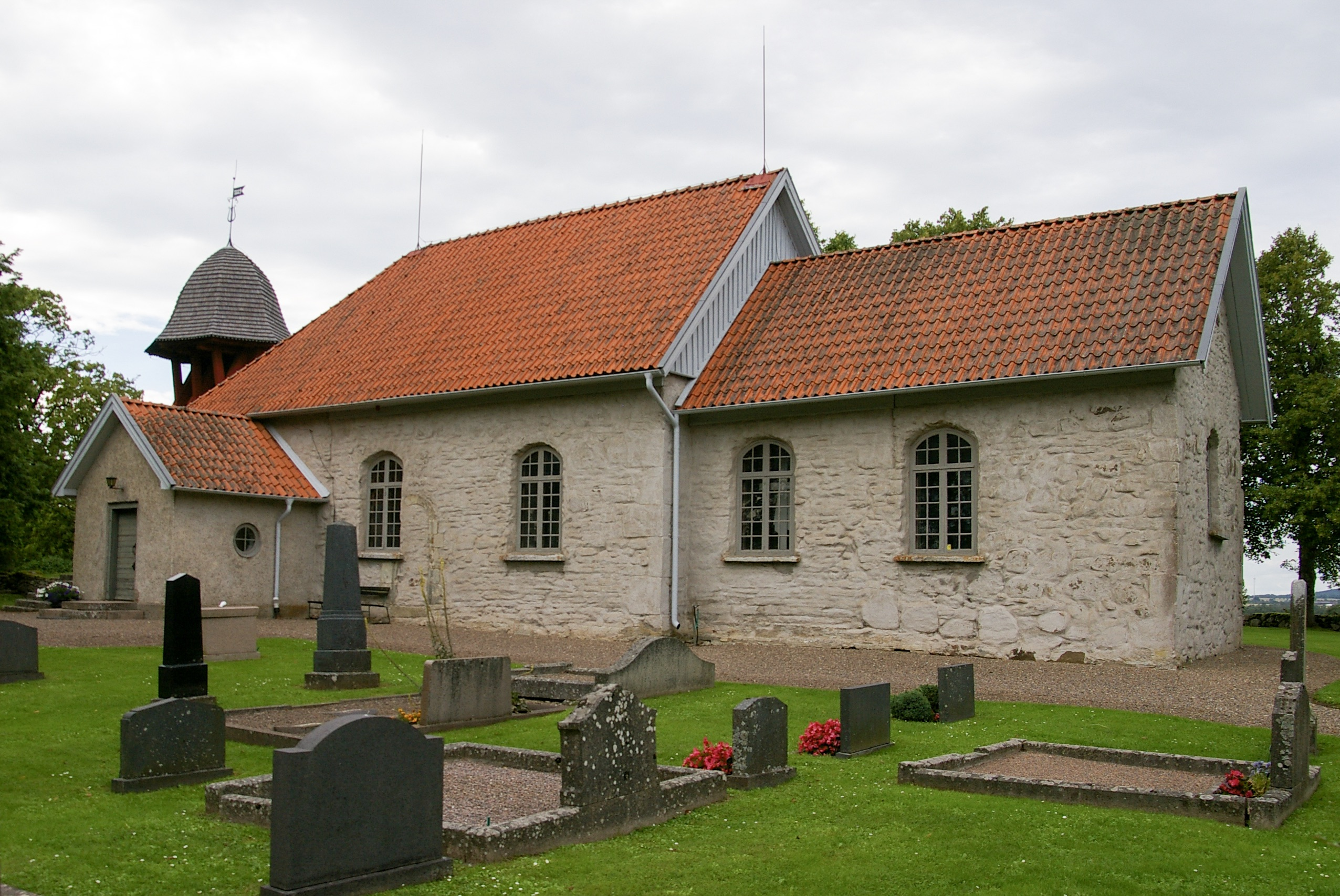 Kälvene kyrka (Swedish:Church of Kälvene) in Västergötland, Sweden.